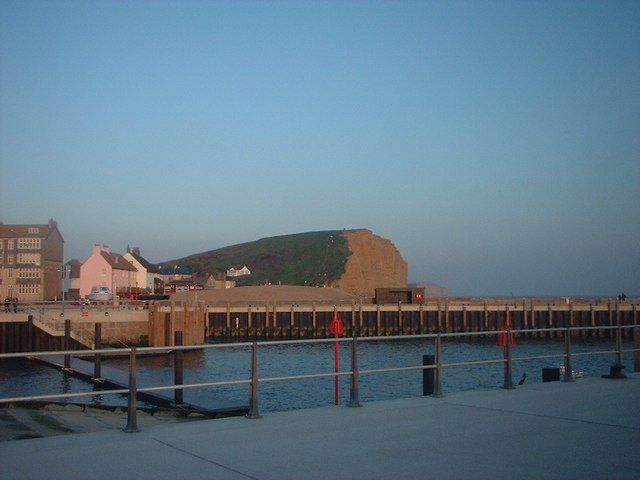 West Bay View from new east harbour entrance looking east.